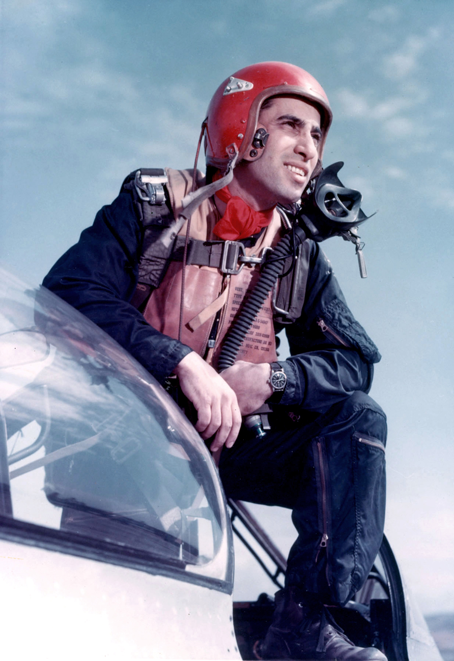 James Jabara standing on a F-86 Sabre in an Air Force photo from April 1953.